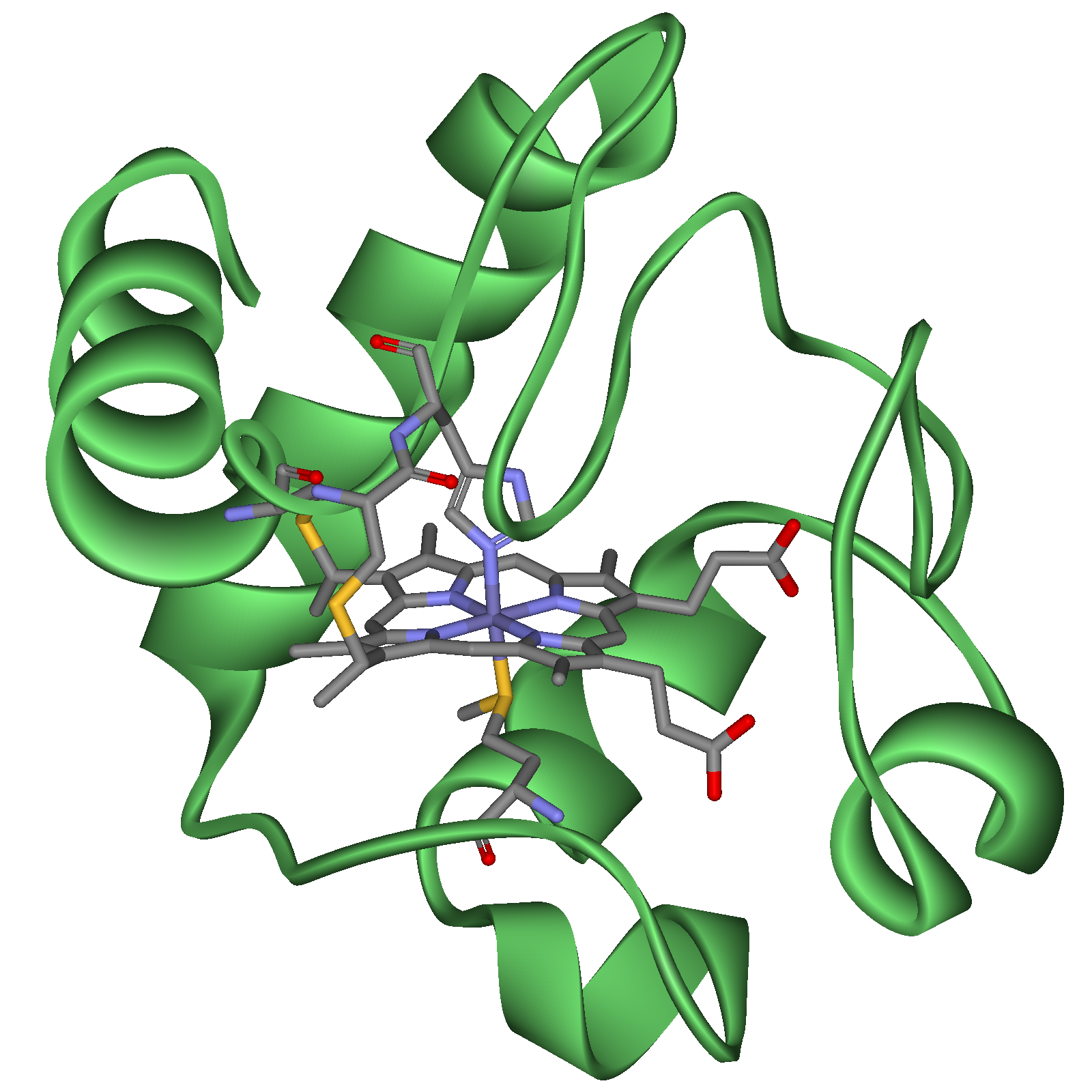 structure of horse heart cytochrome c (PDB:1HRC)